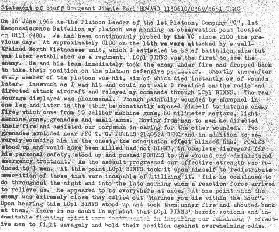 Witness statement